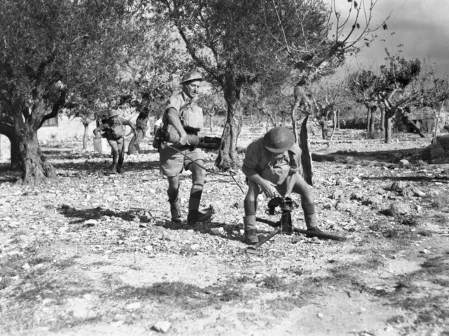 Soldiers from the Australian 2/3rd Machine Gun Battalion set up a Vickers machine gun in Syria, October 1941